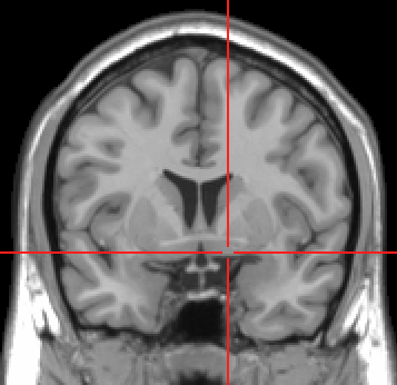 The coronal MRI slice of the brain shows the location of the Substantia innominata with the red cross hair